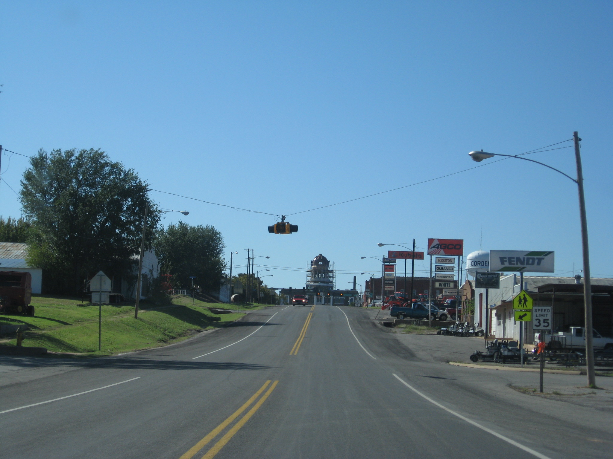 Cordell, Oklahoma as seen from westbound Oklahoma State Highway 152. The building in the center of the photo is the Washita County Courthouse.